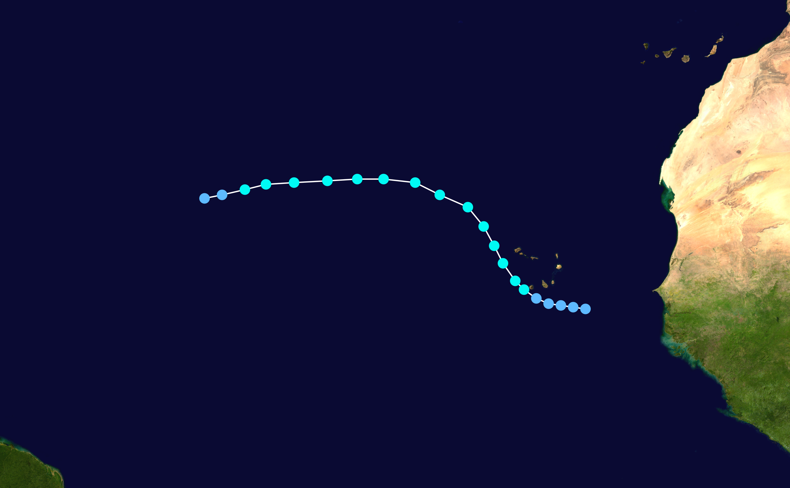 Tropical Storm Fran (1984) track. Uses the color scheme from the Saffir-Simpson Hurricane Scale.